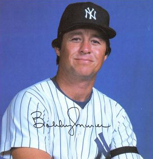 Professional baseball player Bobby Murcer during the 1981 season as a member of the New York Yankees.